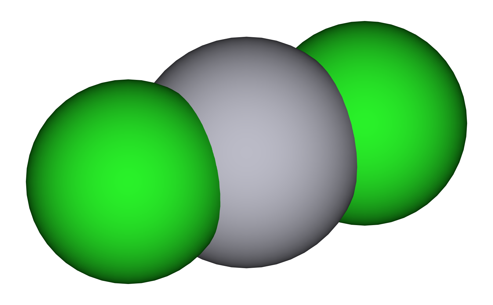 Mercury(II) chloride